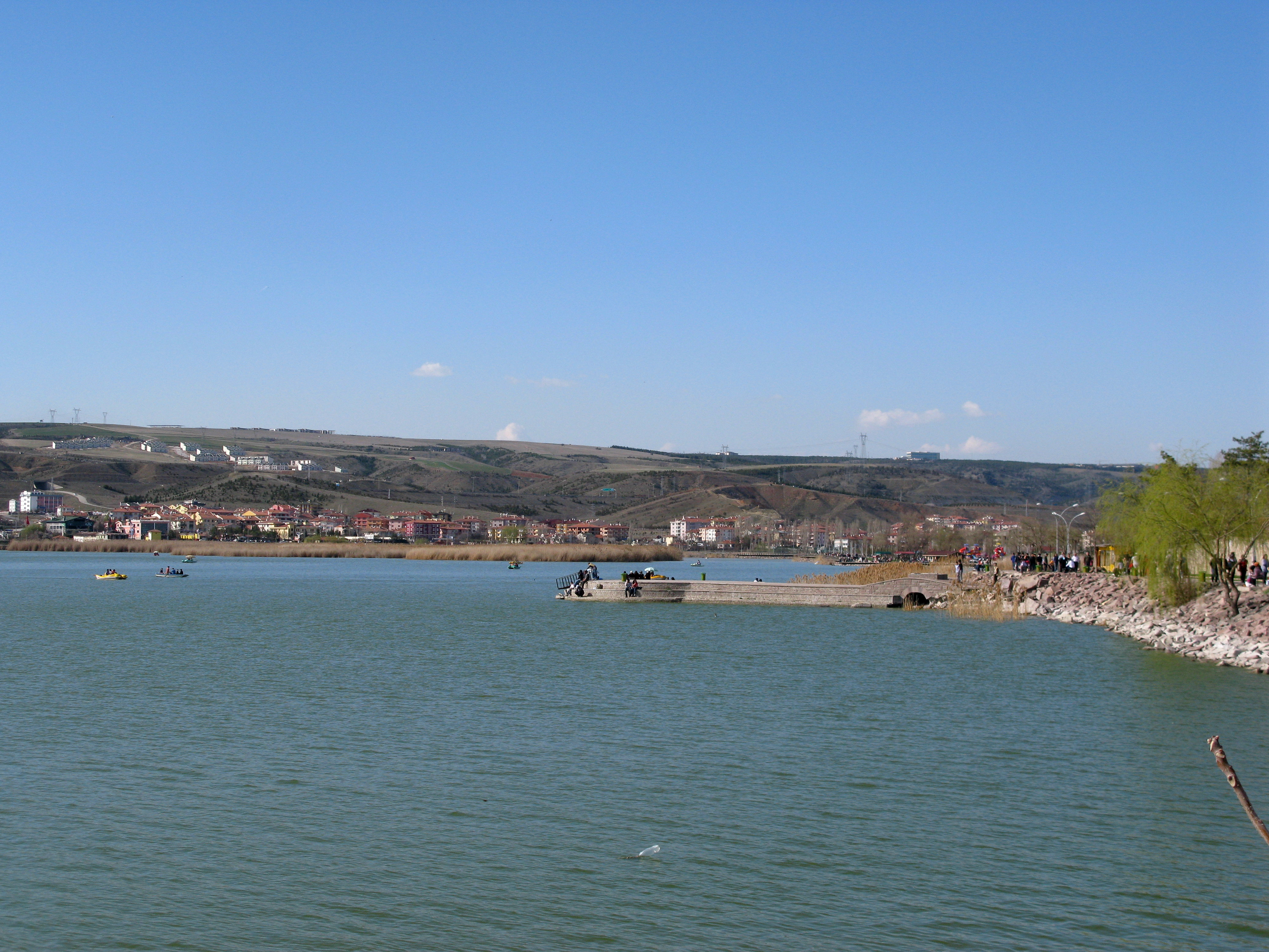 View on the Gölbaşı lake in the district Gölbaşı in Ankara. Picture was take from the eastern shore. The buildings in the background belong to Gölbaşı.